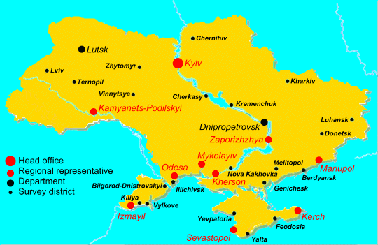 region represent ship register ua